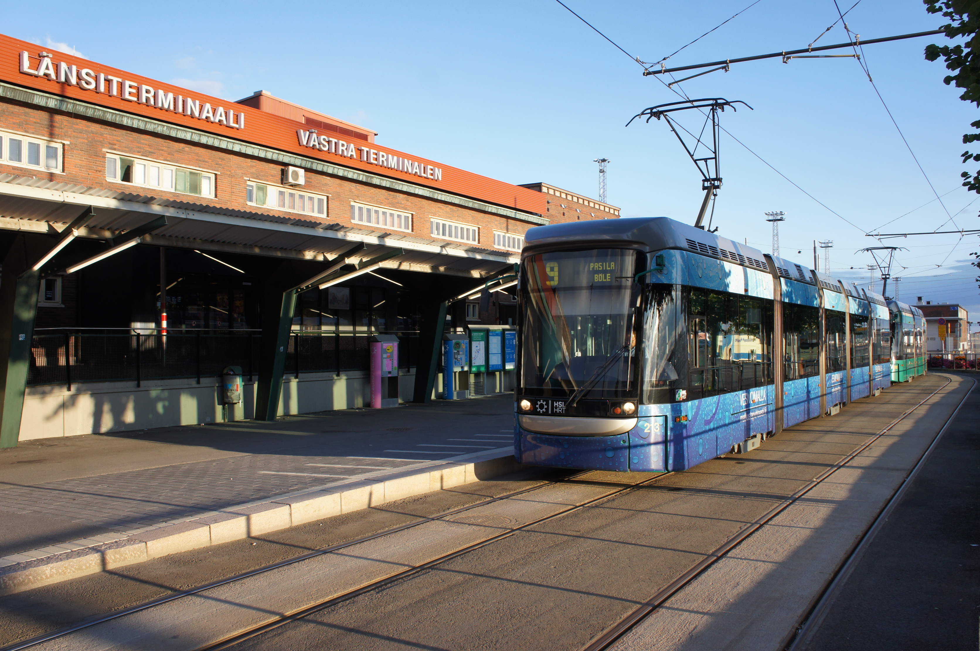 Trams 9 and 6T waiting for passengers from Tallinn, Estonia outside the Länsiterminaali (West Terminal) passenger terminal of Helsinki West Harbour.